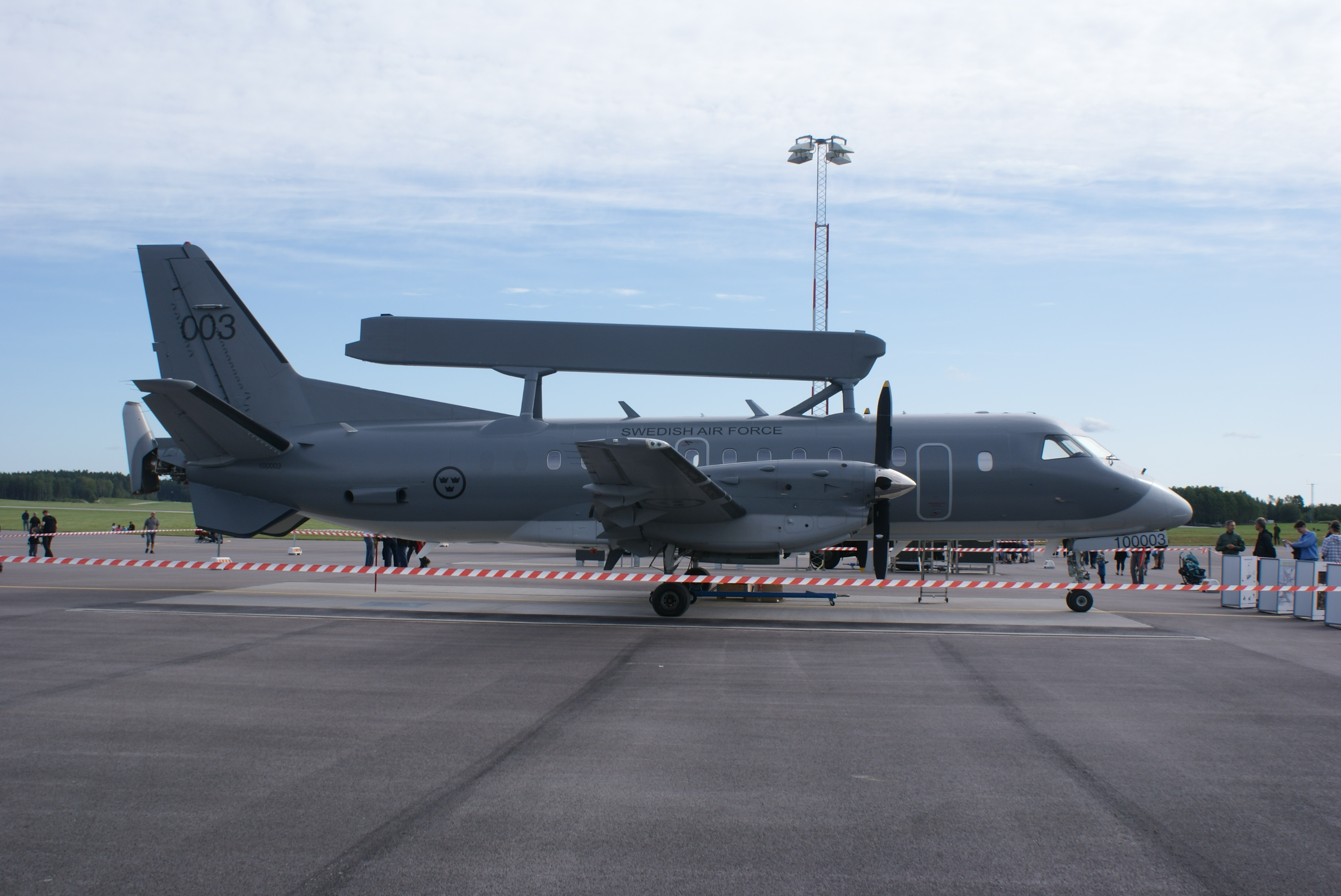 Swedish Airforce Saab 340 with Erieye radar